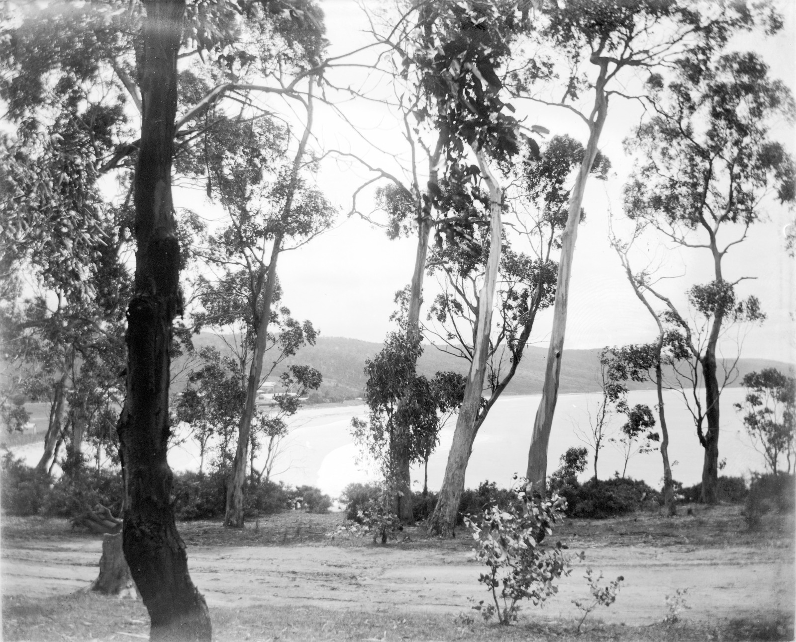 Black and white photograph of the Mallee, Victoria taken by the Victorian State Rivers and Water Supply Commission